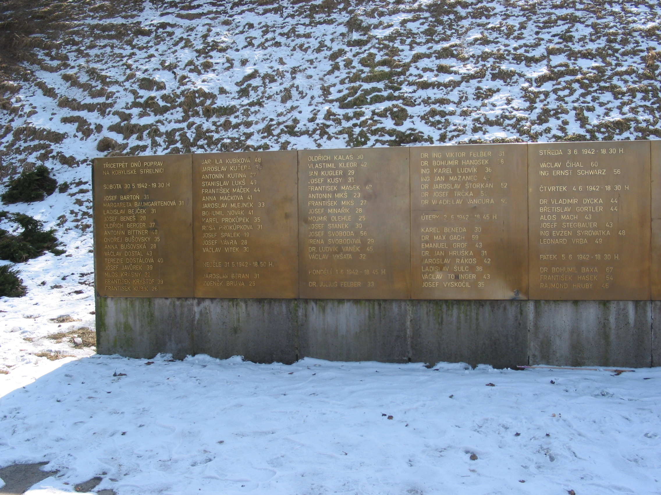 Kobylisy shooting range - list of victims (partial view).